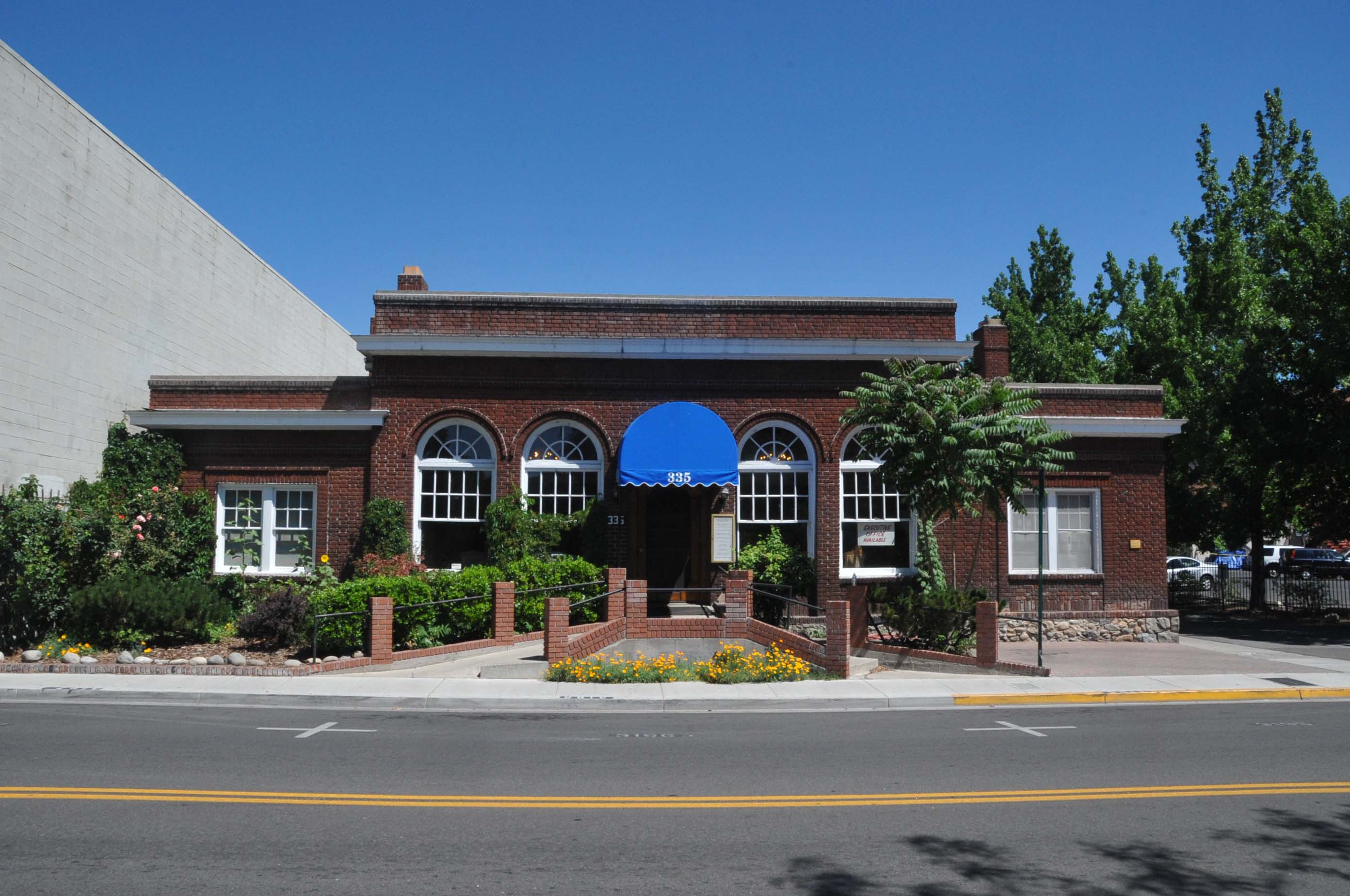 THIS BUILDING WAS CONSTRUCTED IN 1925. THE 20TH CENTURY CLUB WAS A WOMEN’S ORGANIZATION INVOLVED IN MANY CAUSES, RANGING FROM PASSING LAWS PROHIBITING SPITTING ON SIDEWALKS TO EDUCATIONAL AND SOCIAL ISSUES. THIS BUILDING COUPLES PRAIRIE SCHOOL STYLE WITH CLASSICAL ELEMENTS.